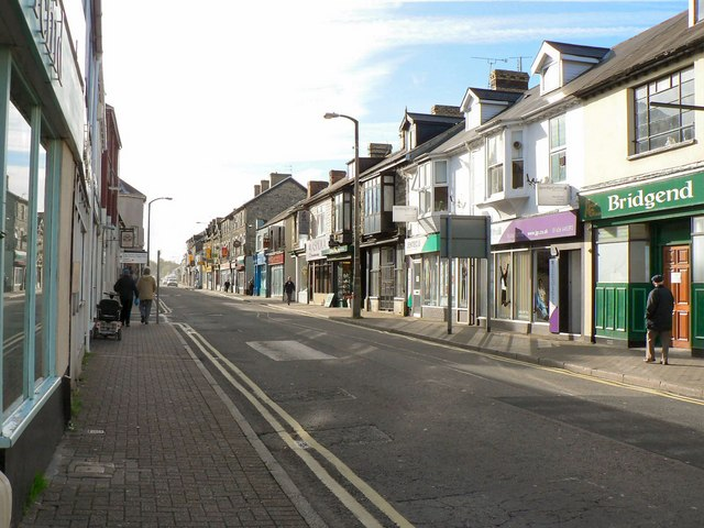 Nolton Street Bridgend Mid morning and just one distant vehicle! Unusual for this main artery into the town.